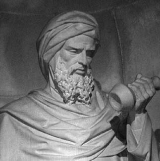 Picture of Islamic Philosopher Ibn Rushd